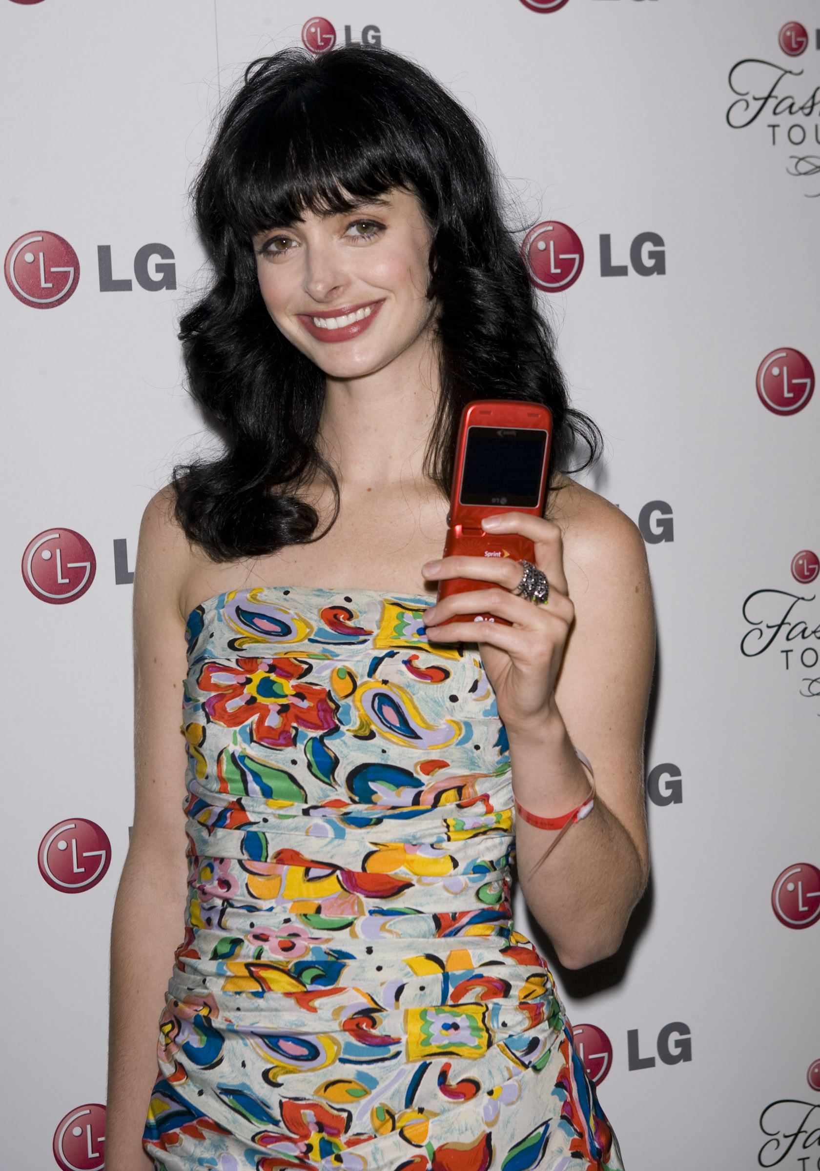 LG Mobile Phone Touch Event. Actress Krysten Ritter.